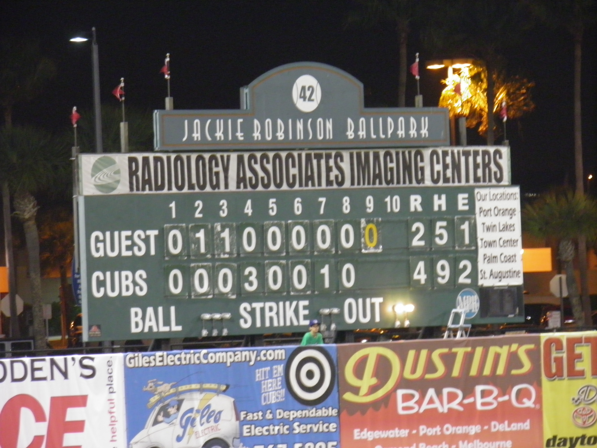 Daytona Cubs vs. Brevard Manatees, at Jackie Robinson Ballpark in Daytona Beach, April 6, 2013. Final score.